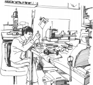 A picture to discribe maker